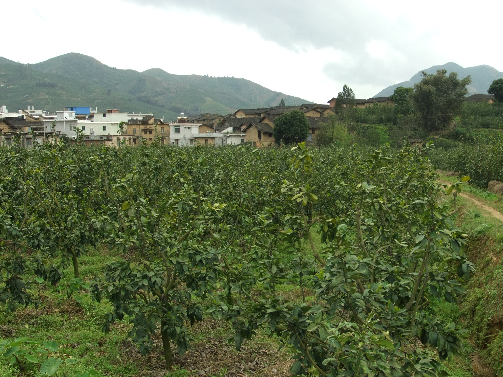 Pomelo orchards about a kilometer NE of Xiazhai Town (Pinghe County), somewhere south-east of Dapingqiao Bridge